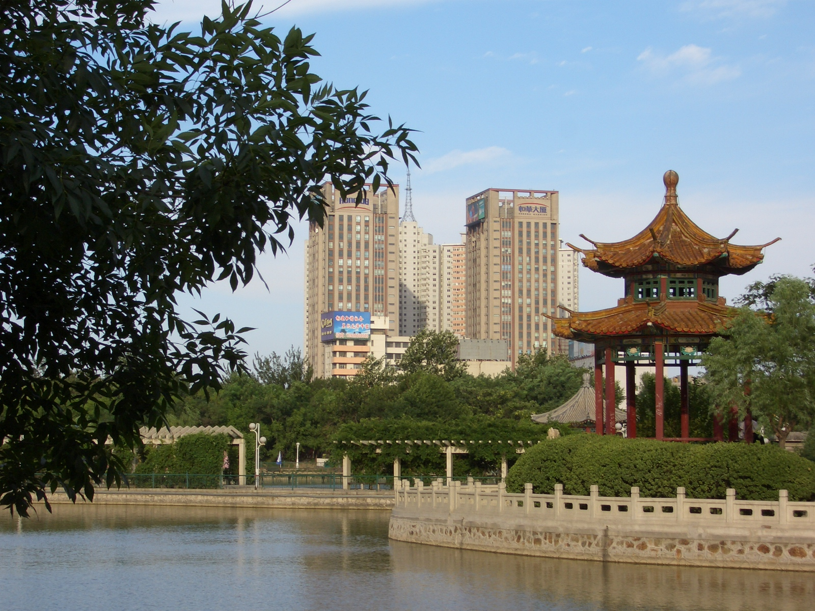 Water view in Peoples Park. I live in one of the large buildings you can see in the back.